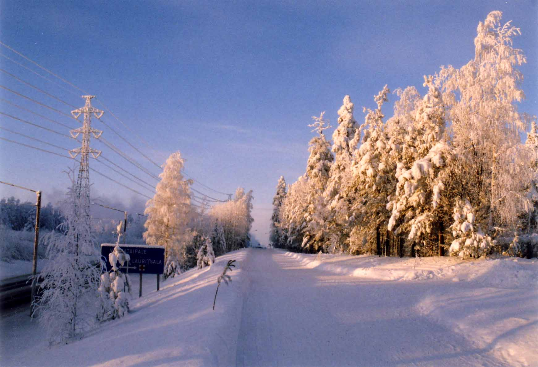 Winter scenery in Lappeenranta, Finland.